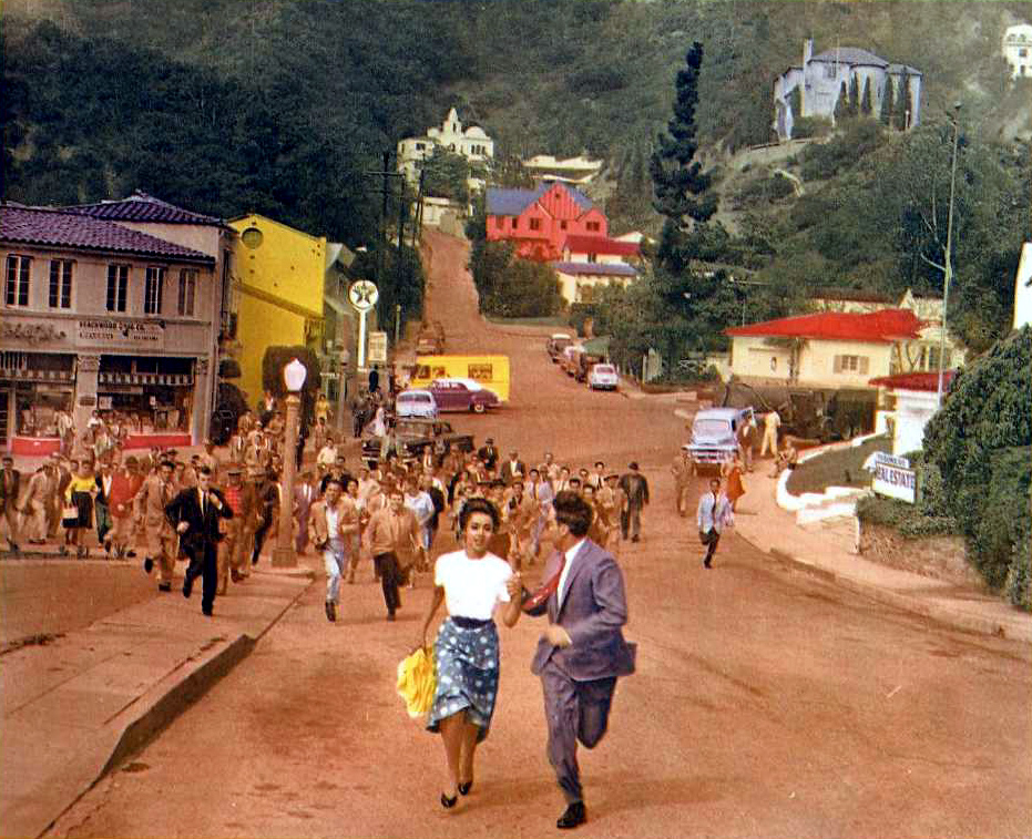 Color lobby card for the 1956 American science fiction movie Invasion of the Body Snatchers, Allied Artists, 1956. Assumed to be in the public domain as no copyright notice is in evidence.